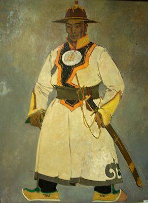 Painting of Amursana in Khovd Aimag Museum, Khovd City